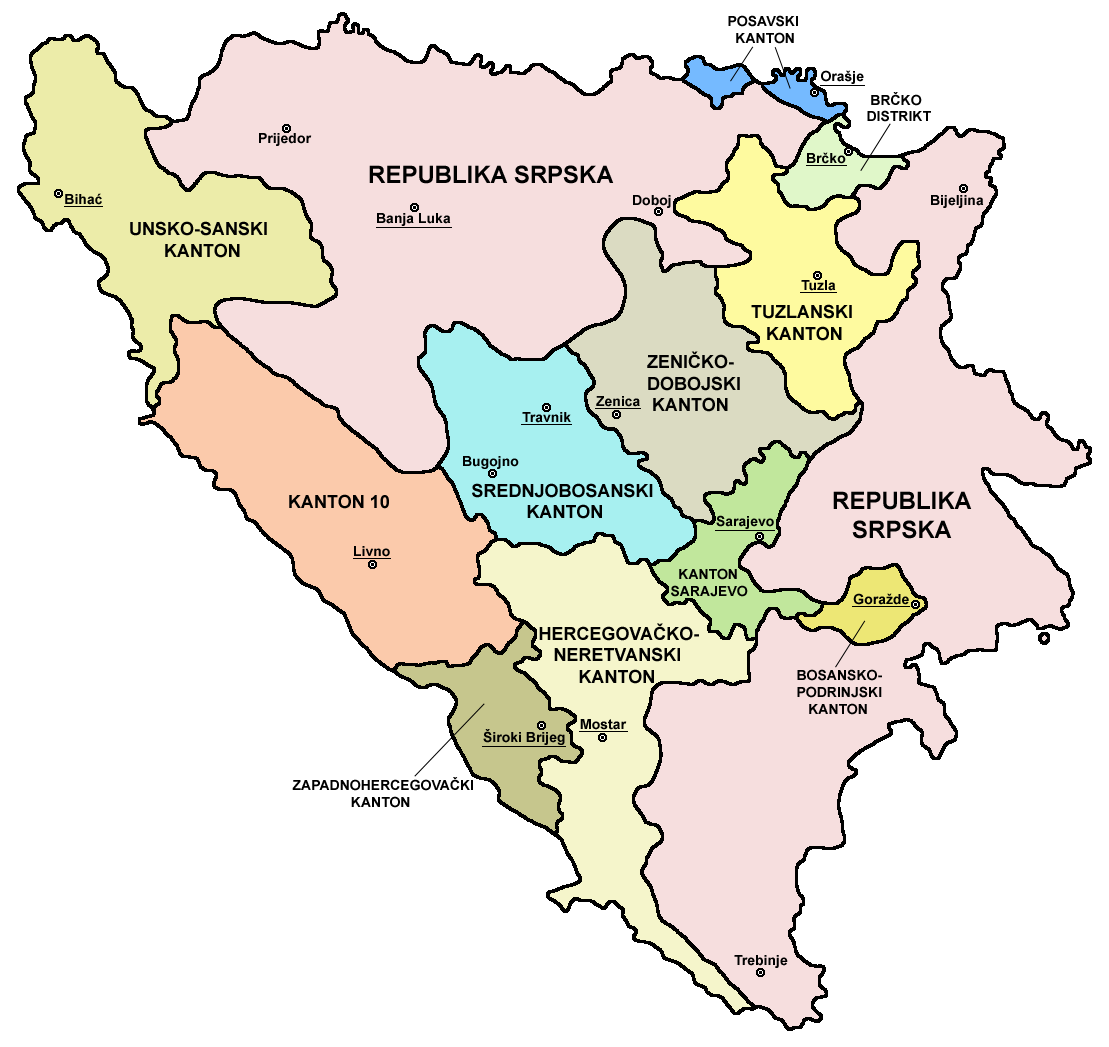 Map showing the cantons of the Federation of Bosnia and Herzegovina.